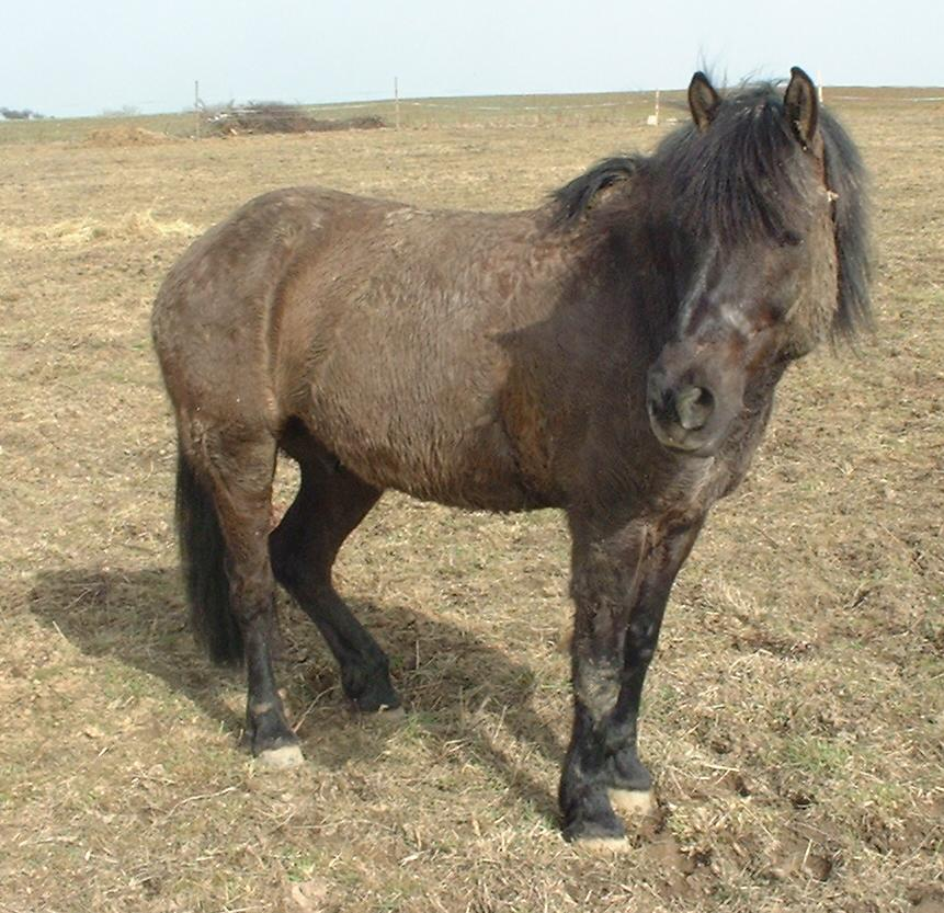 Picture of hucul pony (named Brix), taken by Pavel Machek in March 2004 in Belec near Prague.